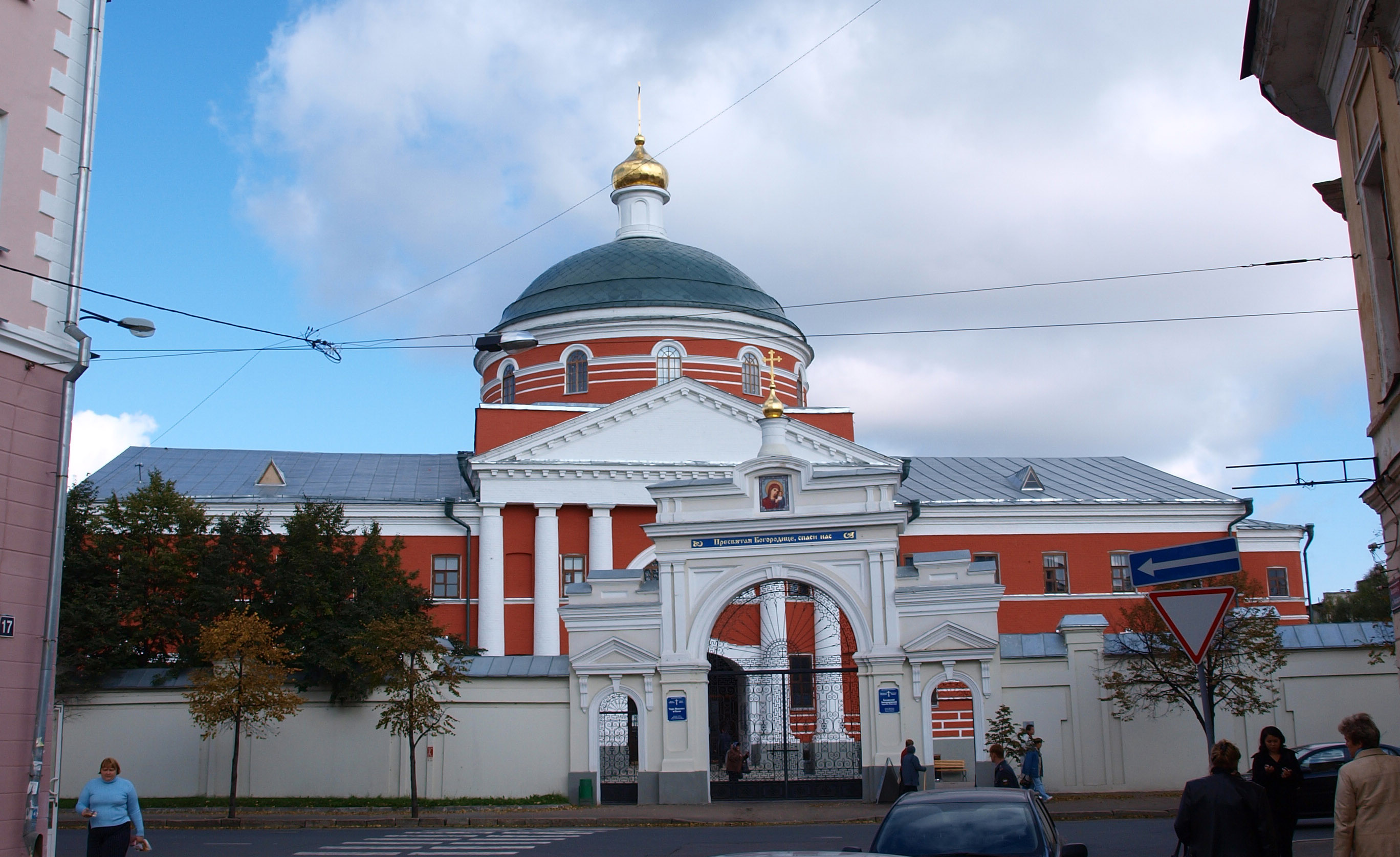 Monastery of the Theotokos, Kazan